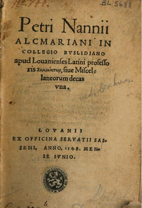 Petrus Nannius (1500-1557), Petri Nannii alcmariani in Collegio Bvslidiano apud Louanienses Latini professoris Summiktôn, sive Miscellaneorum decas una, 1548